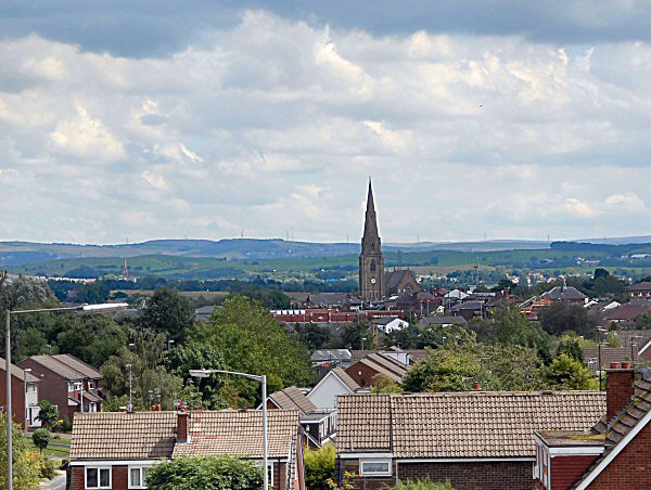 Heywood, Greater Manchester, England. The spire of St Lukes church is the focal point of the town centre.